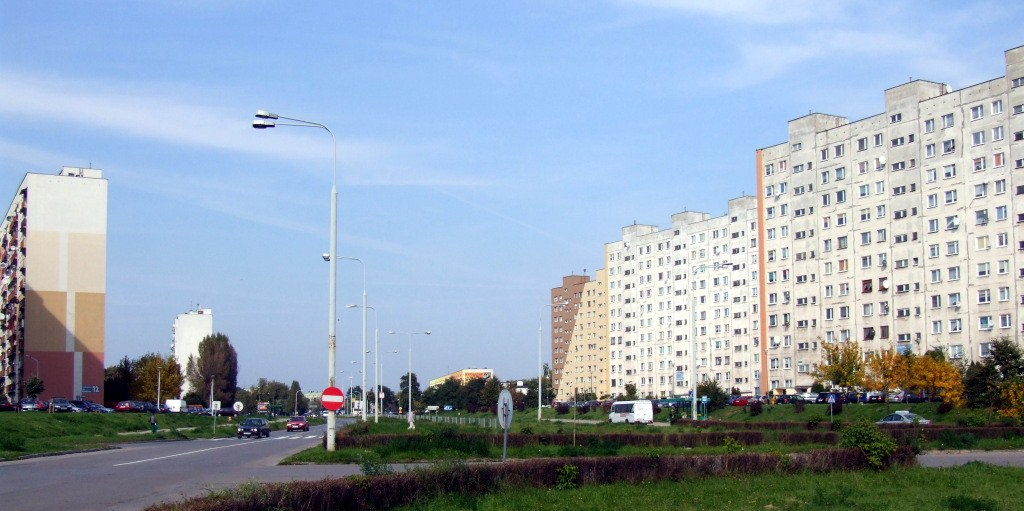 Mieczyslawa Radwana Street in Ostrowiec Swietokrzyski (part of DW755), Poland